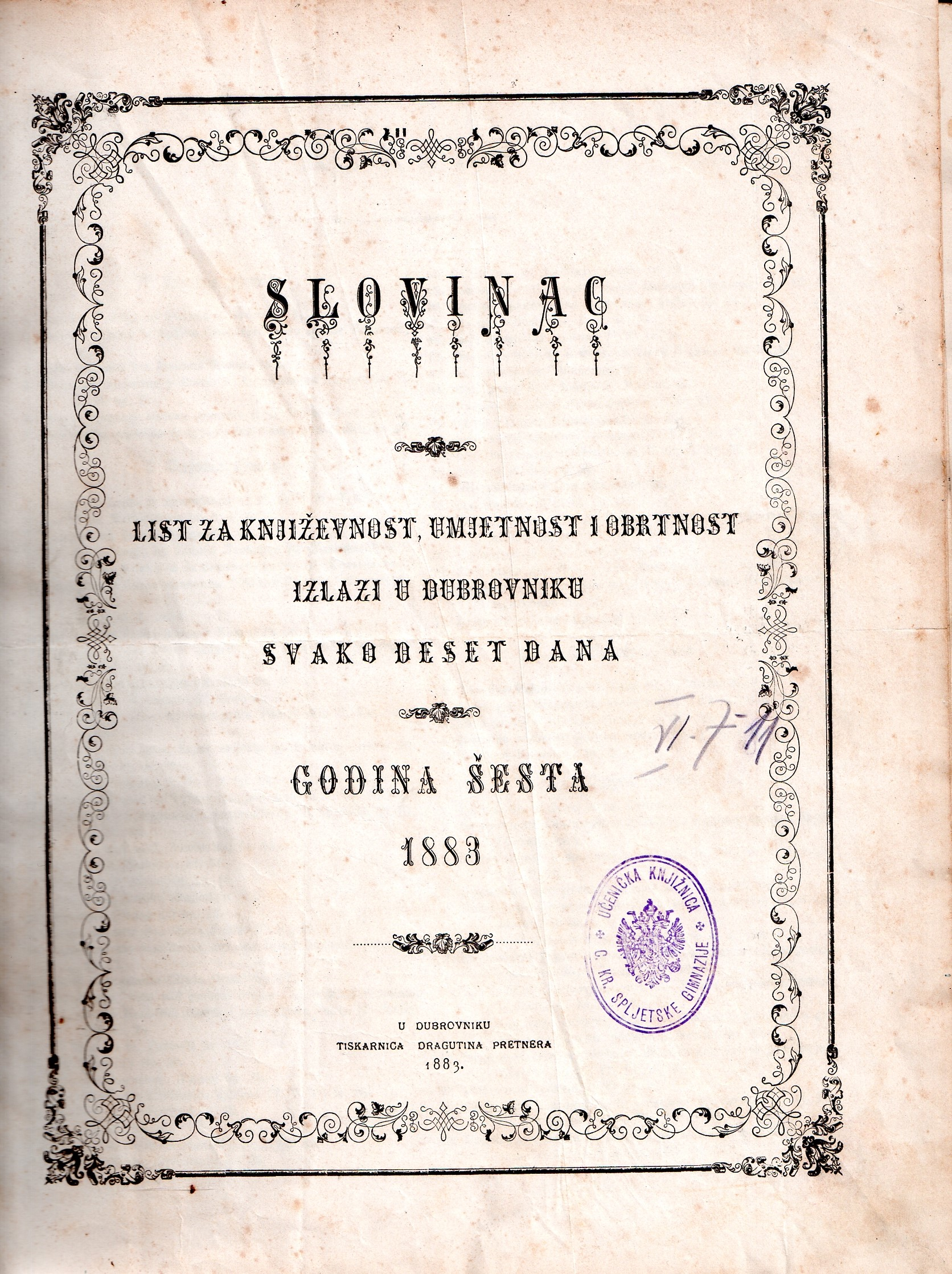 Front page of magazine Slovinac for 1883, Dubrovnik. Srpski (latinica): Naslovna stanica časopisa Slovinac za 1883. godinu, Dubrovnik.